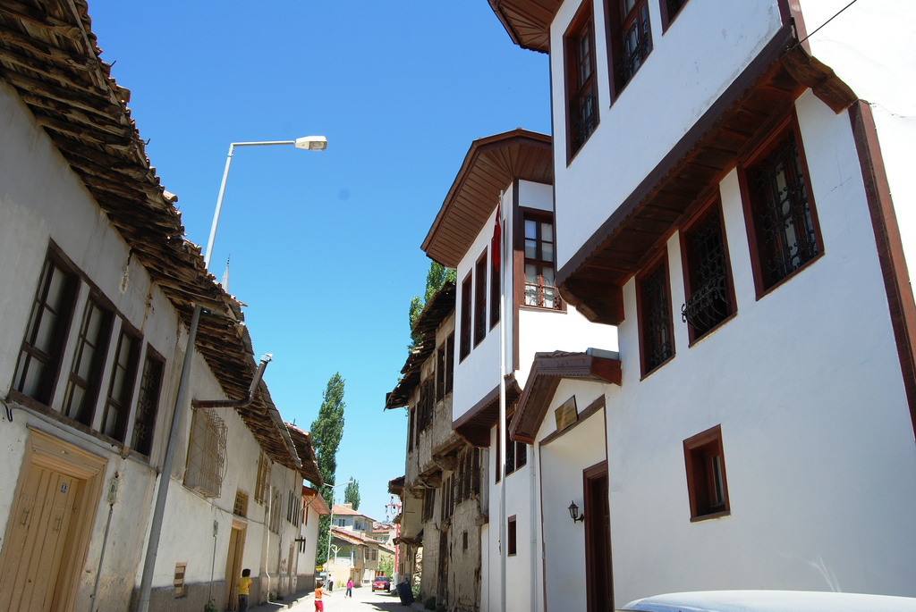 Turkey is a melting pot of many cultures and religions and bridge between continents. With more Greek ruins than Greece, more ancient Roman sites than Italy, irrefutably Turkey is the cradle of civilization. Here are some reasons why you should travel to Turkey.